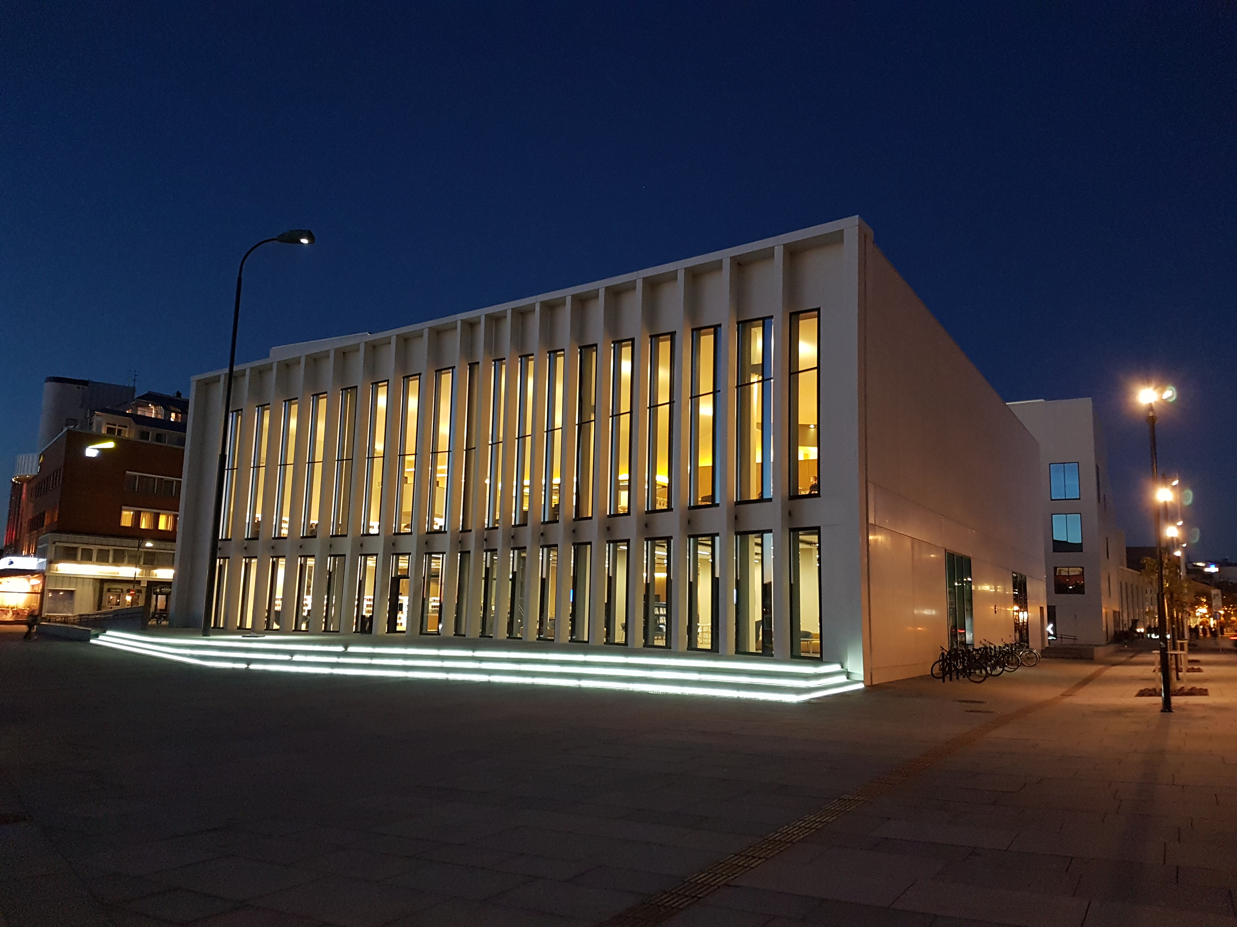 Stormen Library in Bodø at night